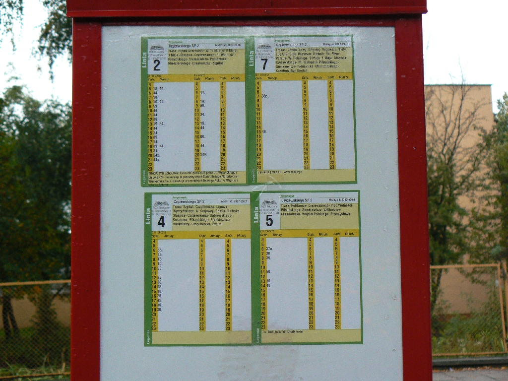 Timetable of MZK Bełchatów on one of the bus stopes in Bełchatów, Poland.